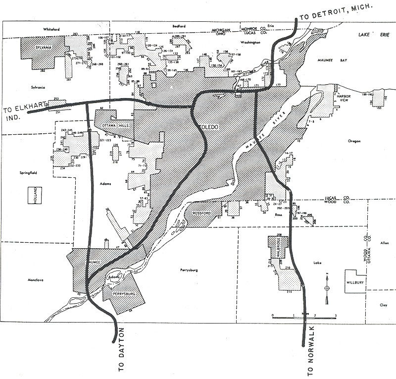 Interstates in today's terms I-75 I-80/I-90 (built further south; original plan became part of I-475 and I-280) I-475